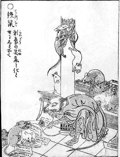 Tesso (鉄鼠) from the Gazu Hyakki Yakō